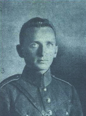 Karel Mareš (1898-1960) was a Czech pilot of the World War II. He was first commander of No. 311 Squadron RAF.